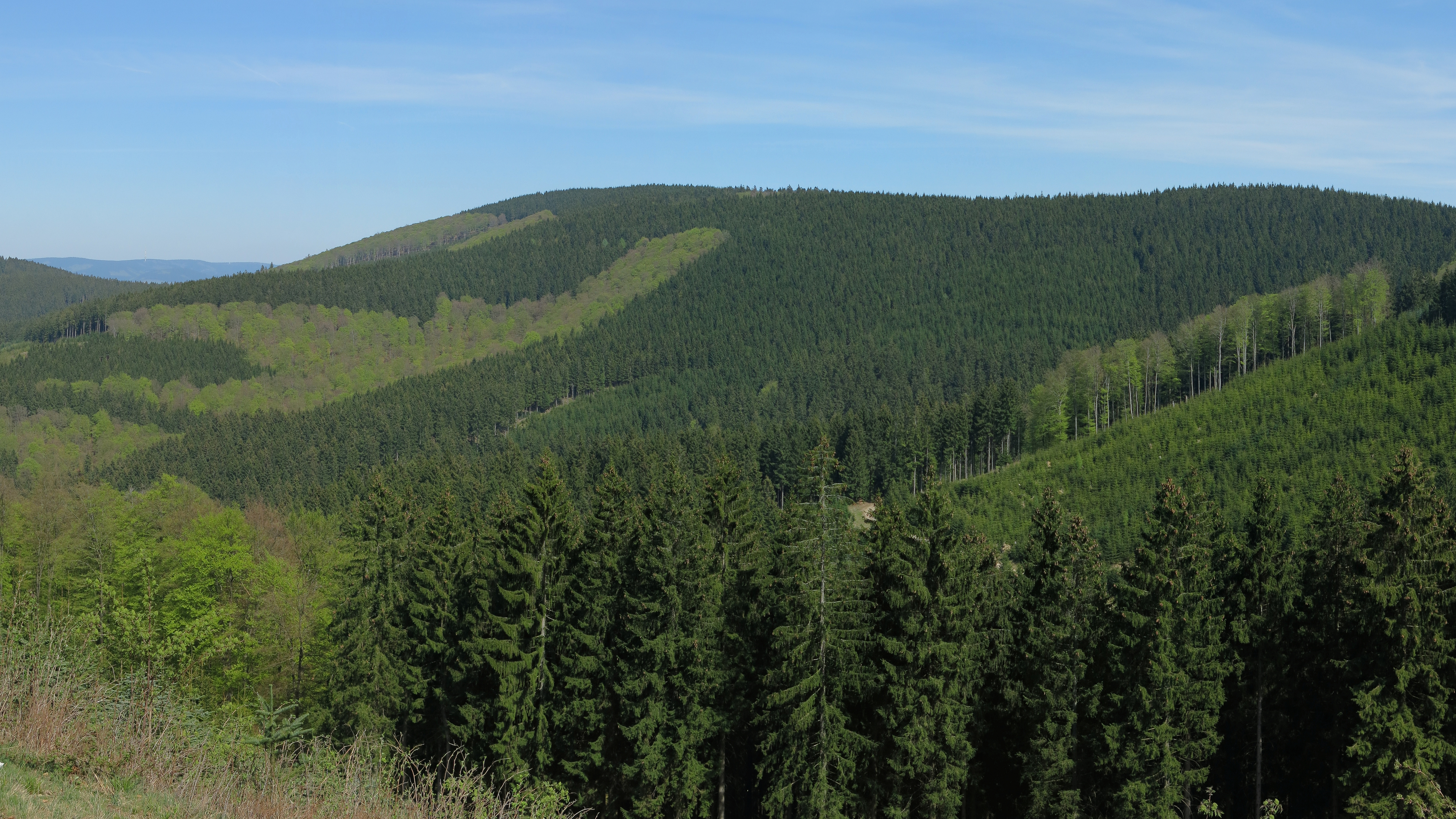 The Härdler in the Rothaar Mountains seen from west